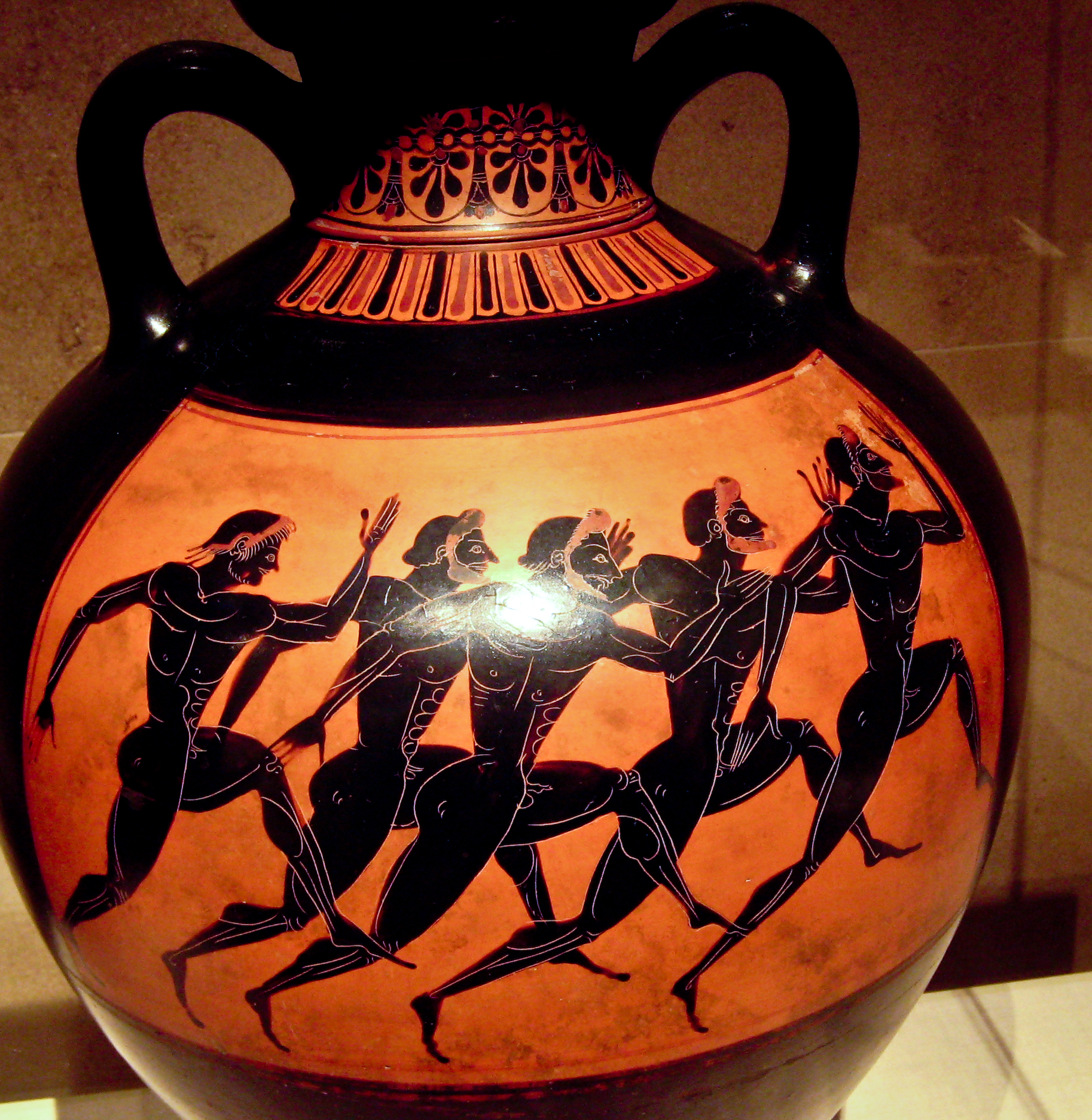 Panathenaic Prize, MET, New York, A.N. 14.130.12